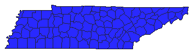 Map for elections in which the Democrat swept every county